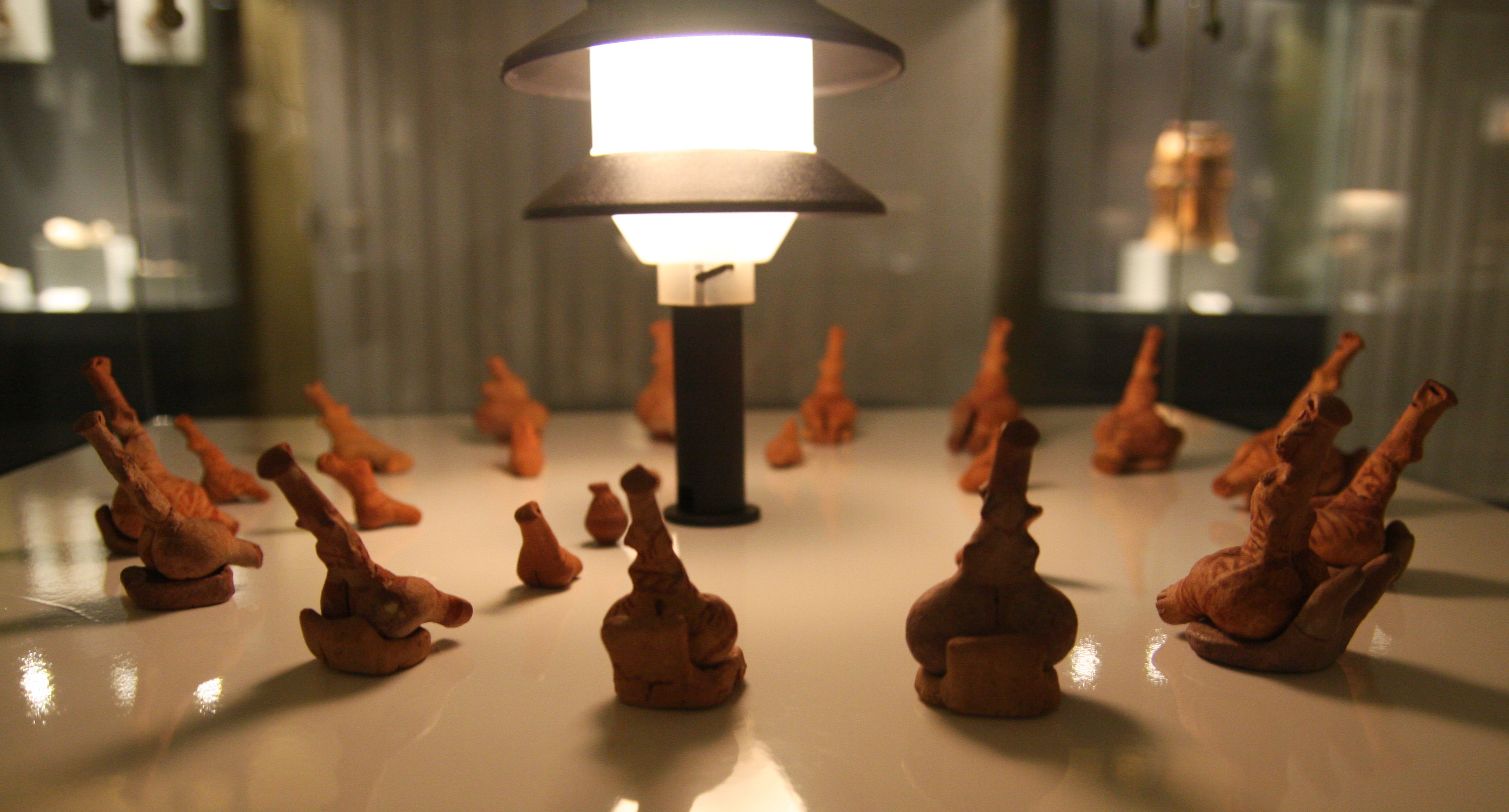 Pre Cucuteni Around 4900-4750BC Isaiia-Balta Popii FCM III